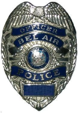 Badge